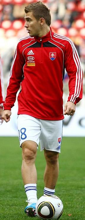 Erik Jendrišek